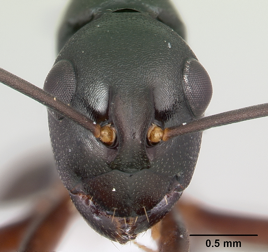 Head view of ant Polyrhachis arborea specimen casent0103184.